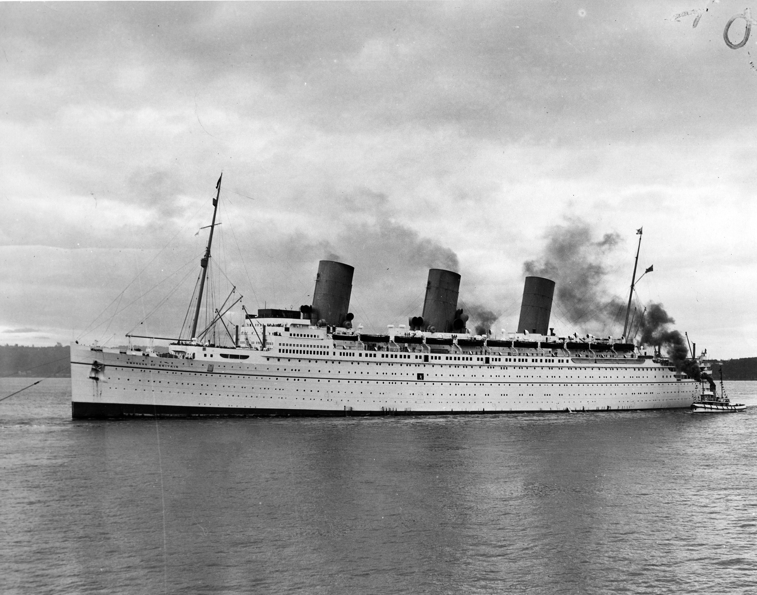 Second C.P. R.M.S. Empress of Britain in harbour at Québec for the British Imperial Trade Conference at Ottawa, Ontario